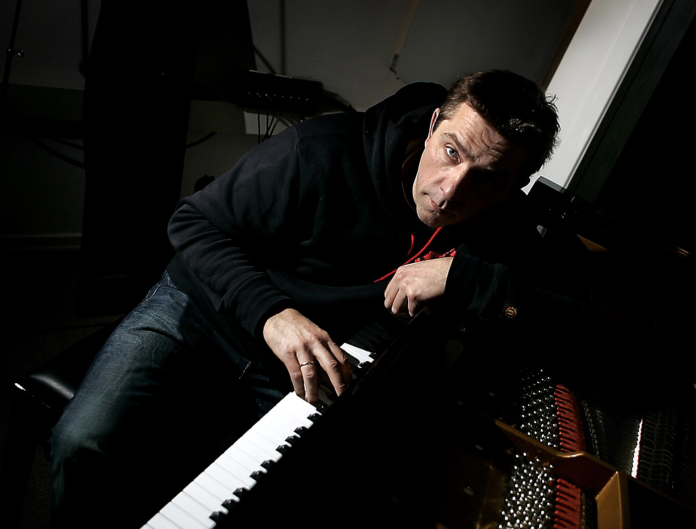 A photo depicting Carsten Dahl with piano